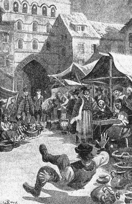 An illustration from Jules Verne's novel "The Secret of William Storitz" (written in 1898, firts published in 1910 after his death with changes made by his son Michel) drawn by George Roux.